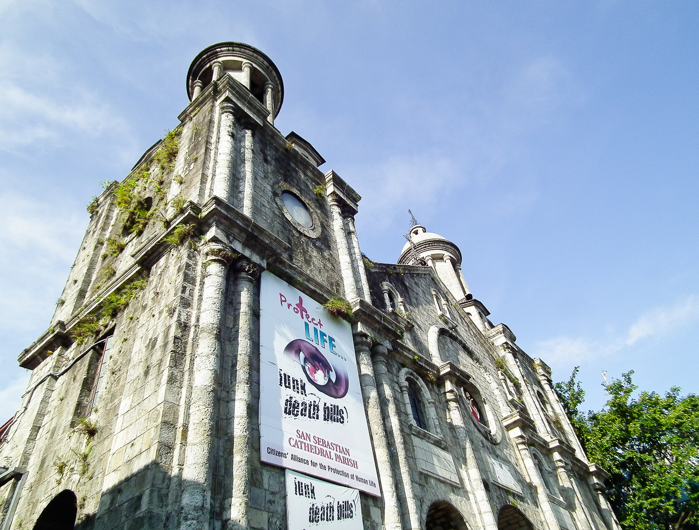 Located at the heart of Bacolod City, Negros Occidental, this religious monument has been a witness to Bacolod's history.